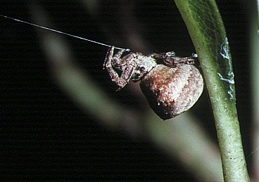 Female Hyptiotes affinis from Okinawa (Japan).